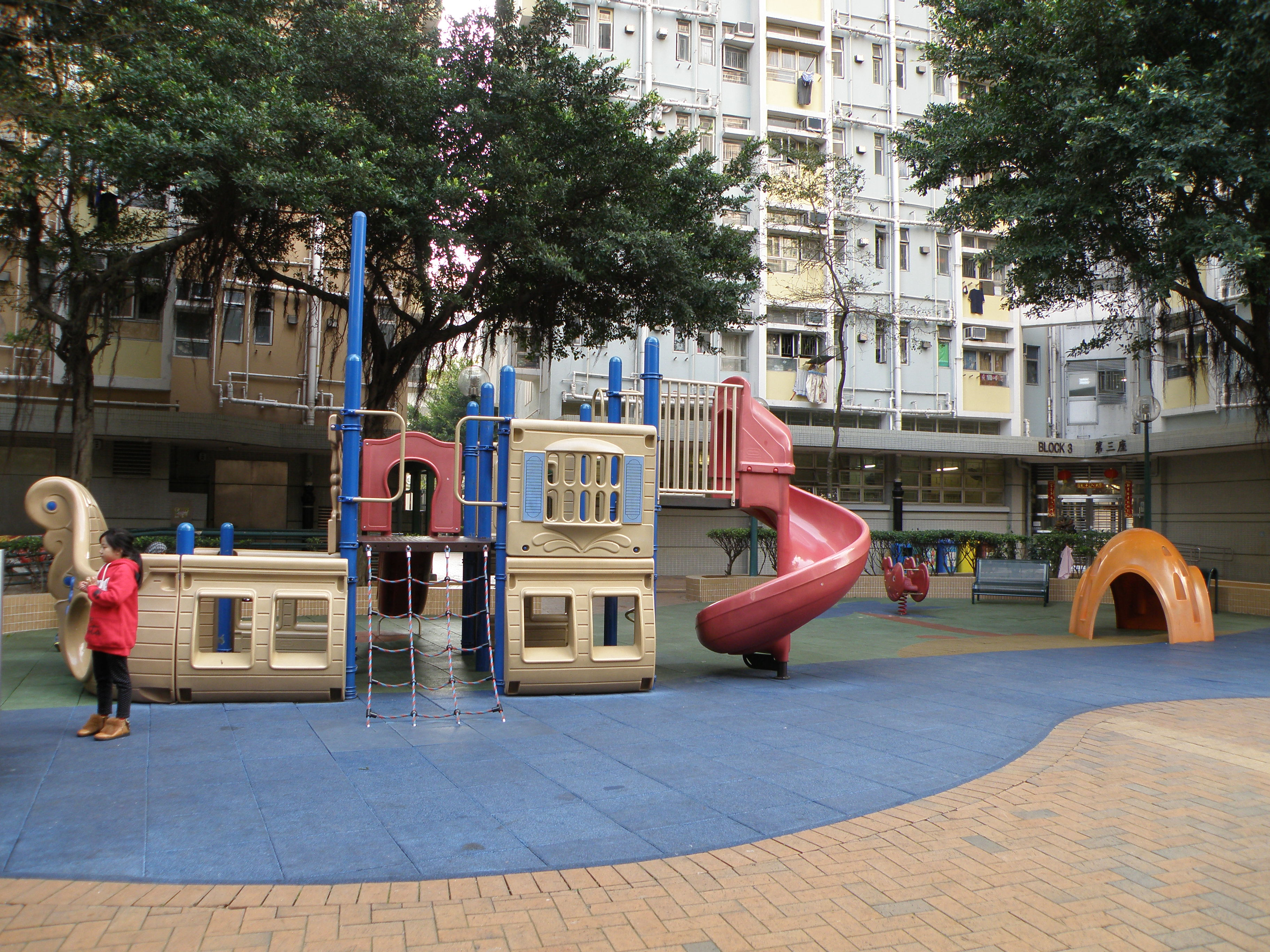 Po Tin Estate in Tuen Mun, Hong Kong.